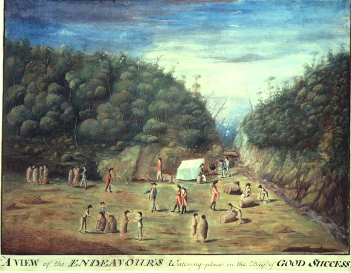 A view of the Endeavour's watering place in the Bay of Good Success, Tierra del Fuego, with natives. From A Collection of Drawings made in the Countries visited by Captain Cook in his First Voyage. 1768-1771 Gouache on vellum